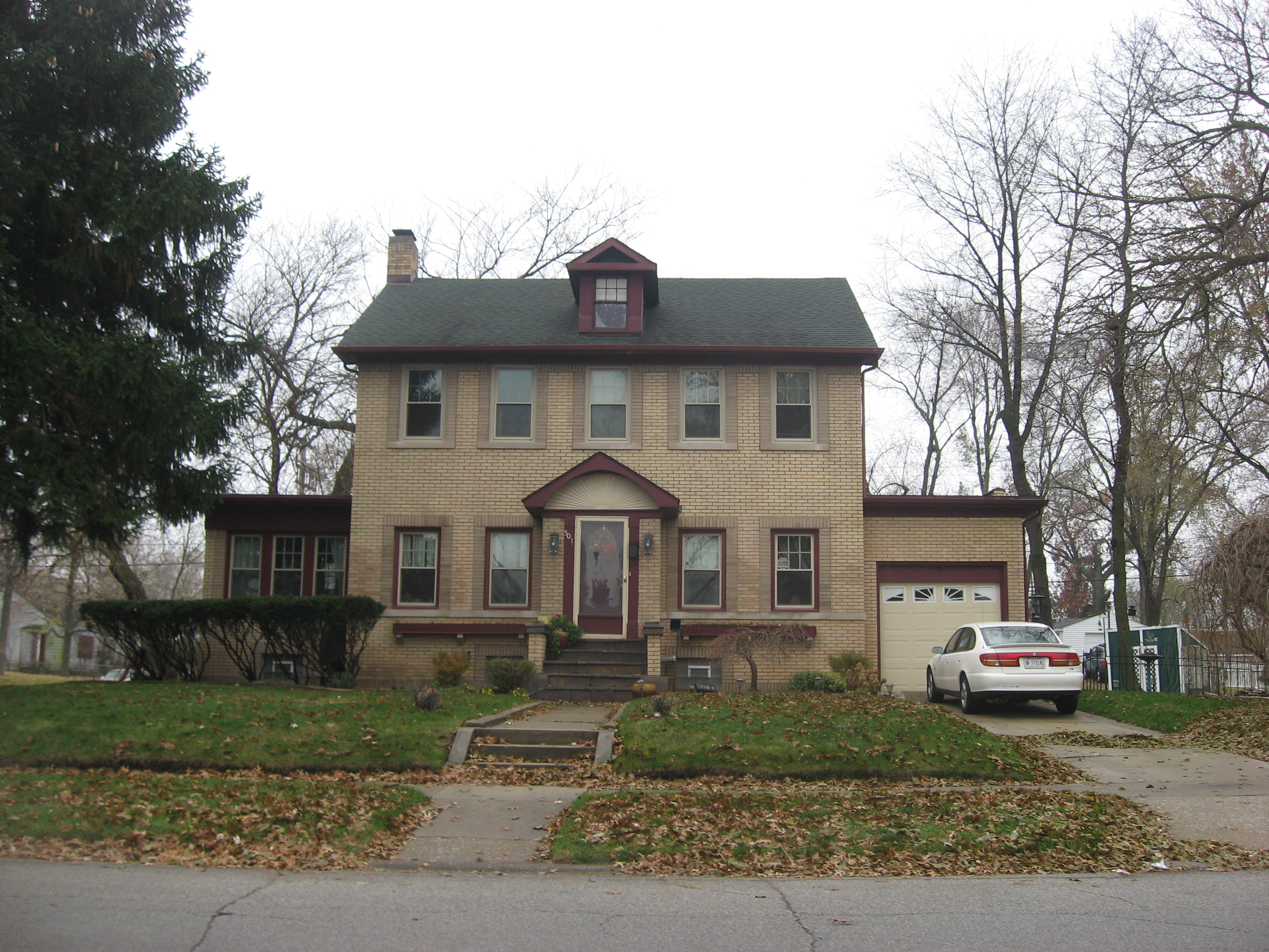 Front of the Barney Sablotny House, located at 501 W. Forty-seventh Avenue in Gary, Indiana, United States. Built in 1928, it is listed on the National Register of Historic Places.